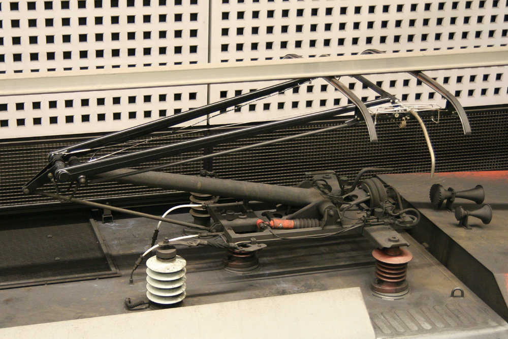 Pantograph of a DB Class 101 locomotive. This picture was taken in Berlin Hauptbahnhof.